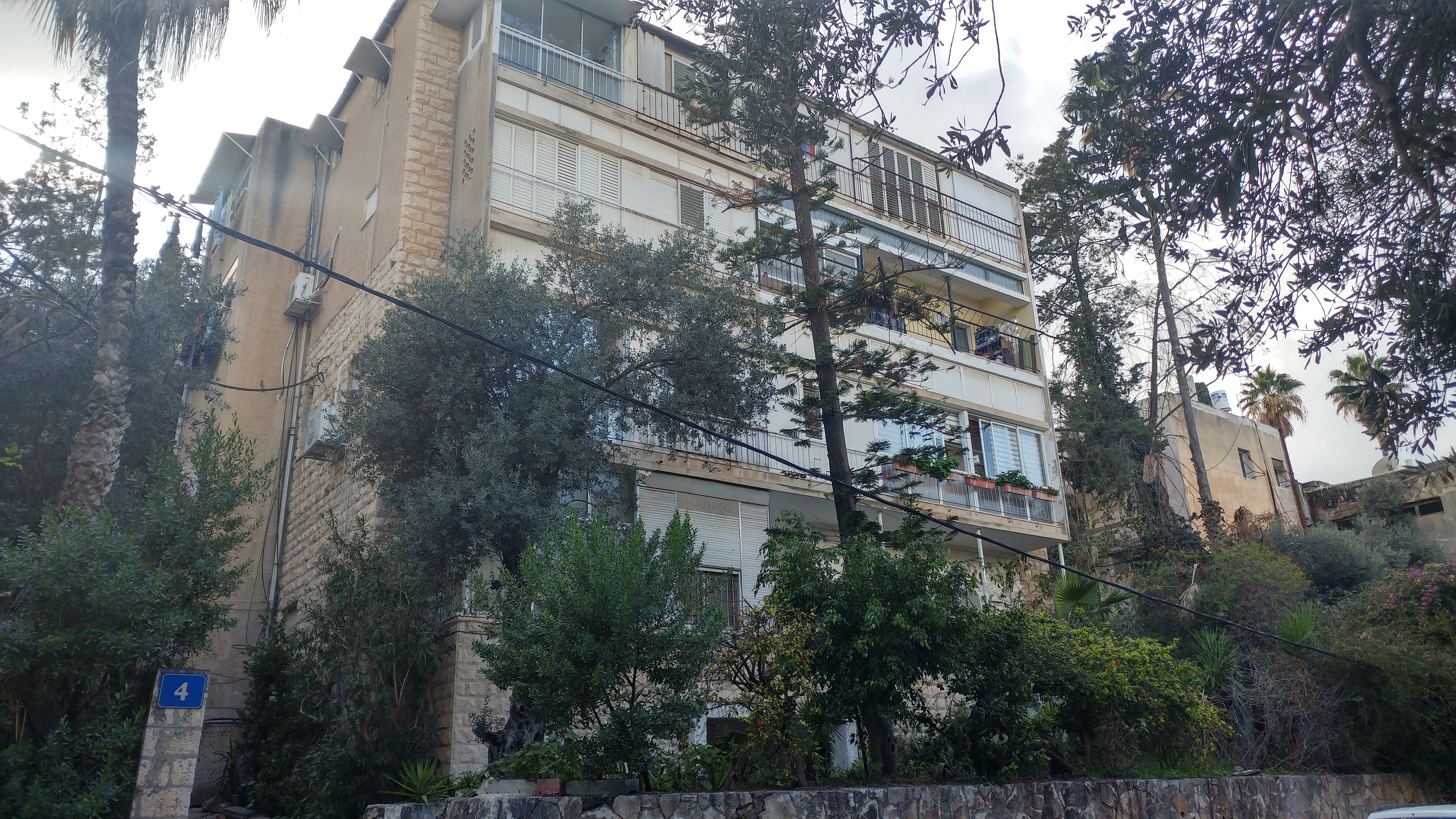 Yechiel Weizmann house in Melchett street No.4, Haifa, Israel.